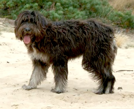 Picture of a one year old female Barbado da Terceira